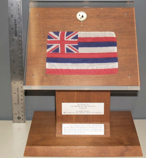 Hawaii Apollo 11 display with 11 inch ruler measurement